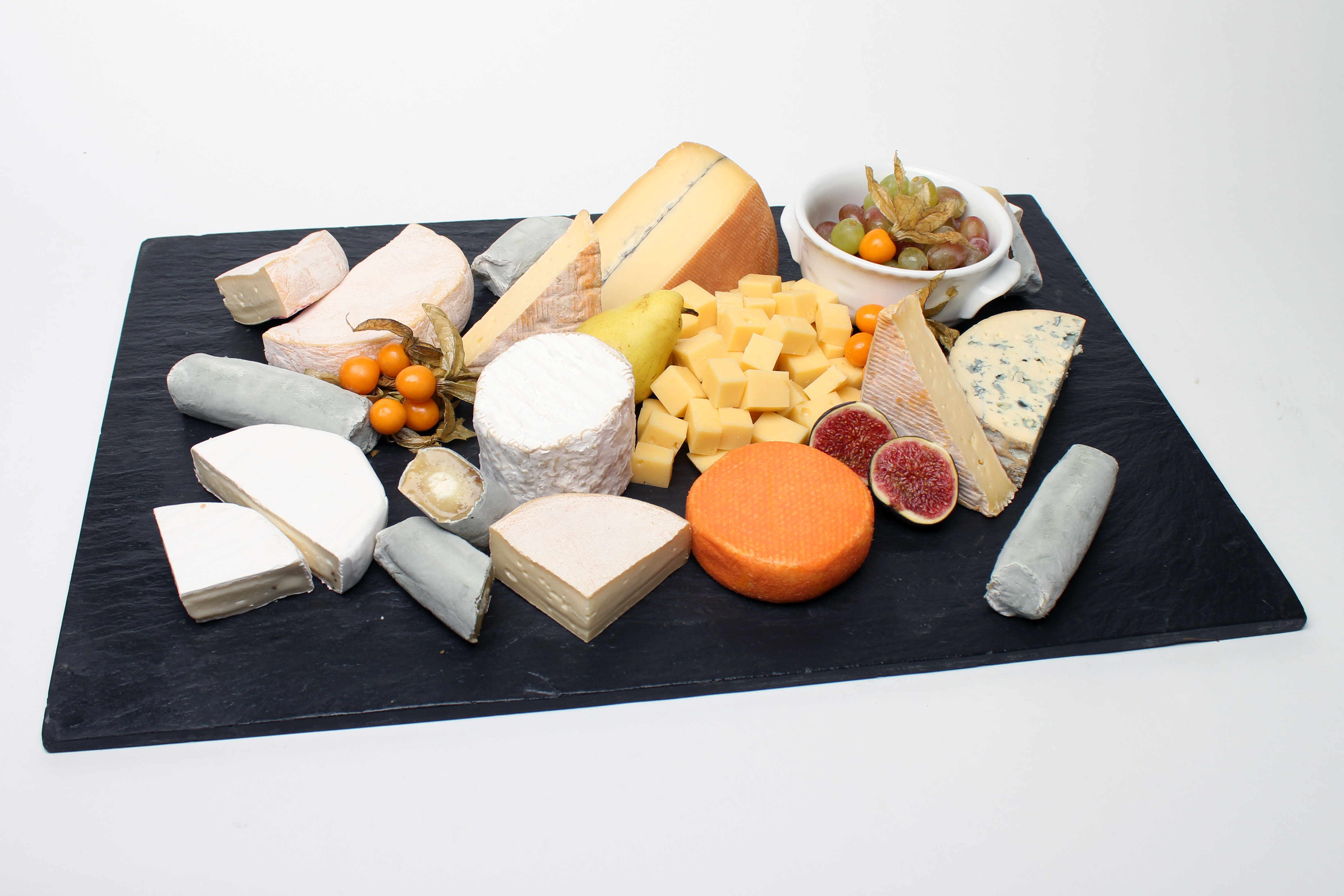 International Cheese platters